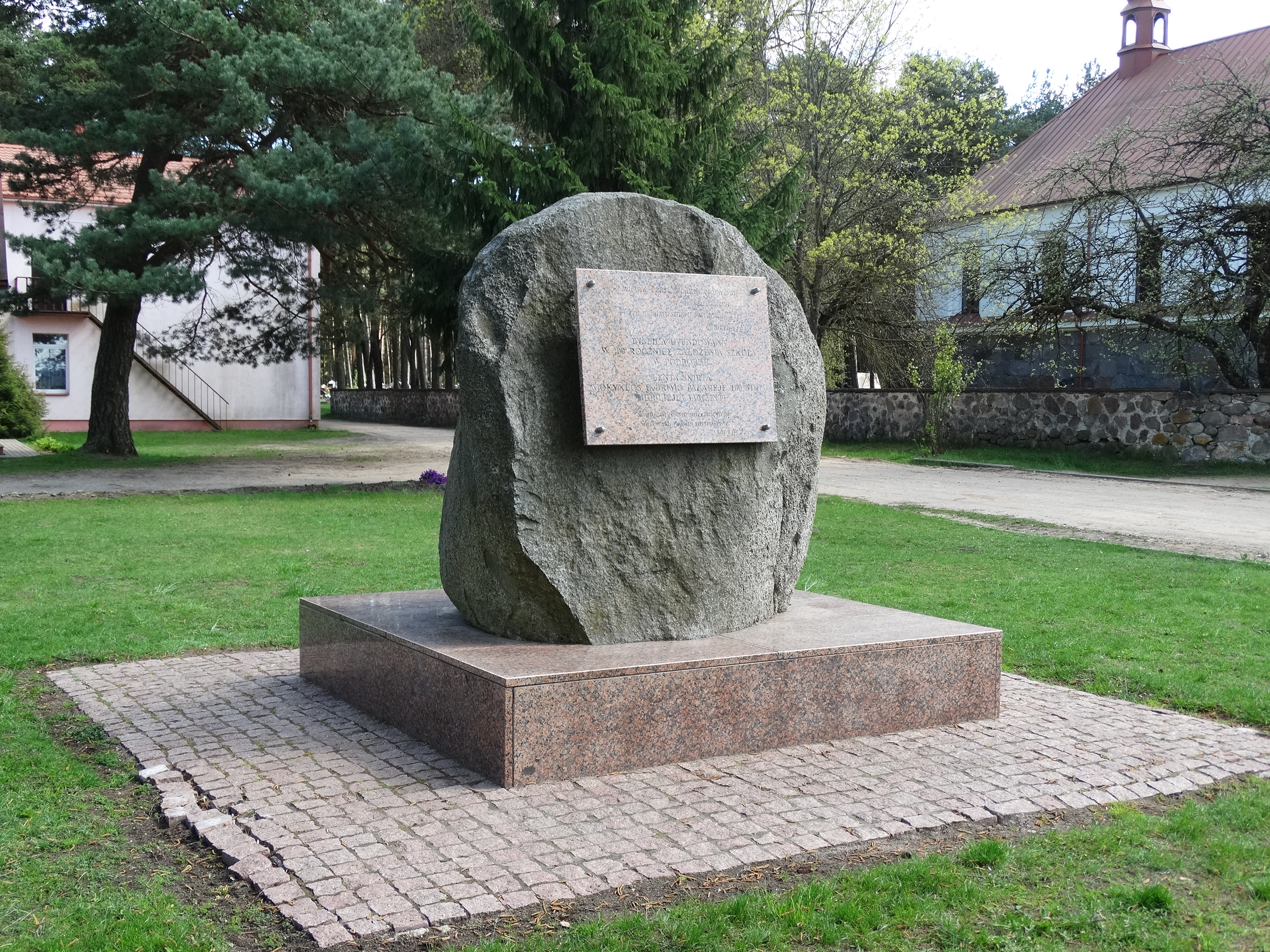 Memorial stone, Pabarė, Šalčininkai District, Lithuania